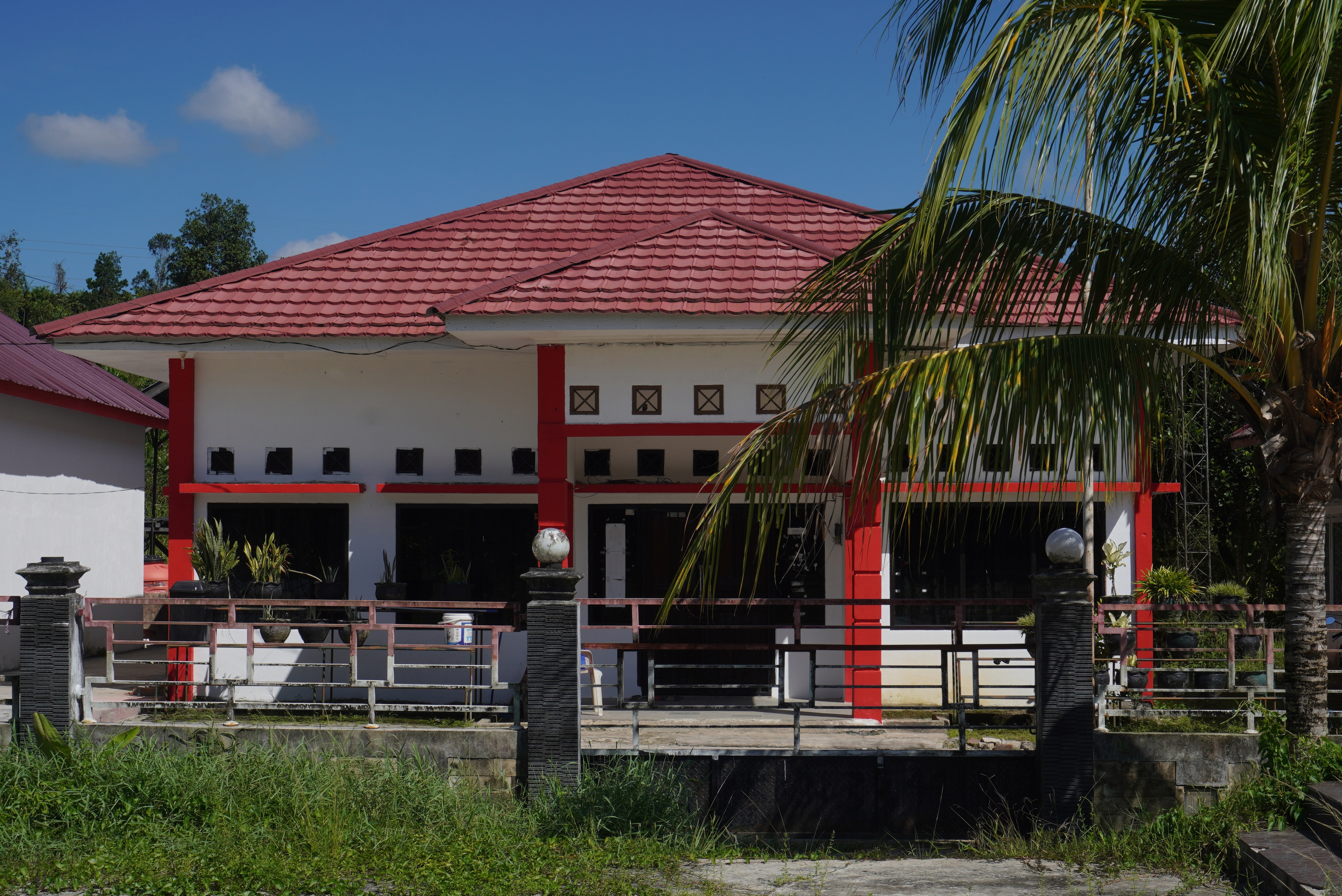 Margomulyo urban village office in Samboja subdistrict, Kutai Kartanegara Regency, East Kalimantan, Indonesia.